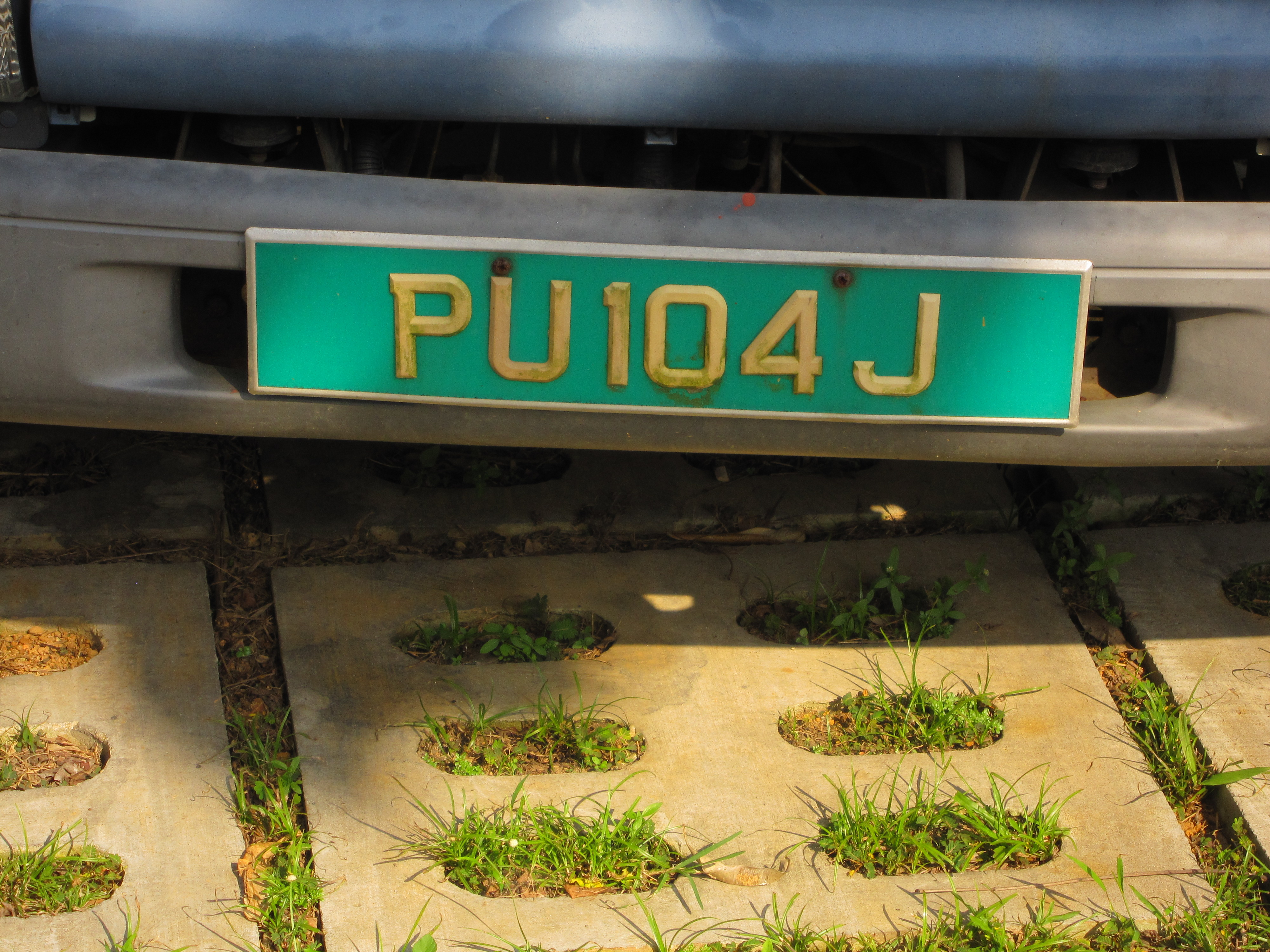 A Singapore Pulau Ubin vehicle registration plate of a private bus.